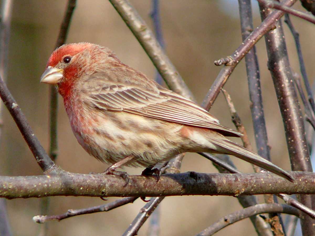 A male House Finch (Carpodacus mexicanus) perched in the branches of an apple tree.Photo taken with a Panasonic Lumix DMC-FZ50 in Caldwell County, NC, USA.